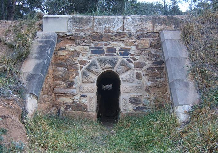 Convict-built culvert dated 1939, for the Great South Road, at Towrang, Australia. Possibly designed by David Lennox. Adjacent to bridge (~250m).)